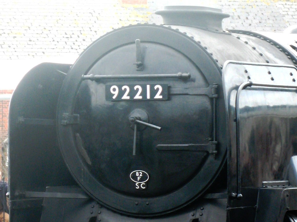 The smokebox of a British railways 9F class 2-10-0 steam locomotive. The three identification plates are (from top to bottom) '92212', the locomotive's number; '82F' its shed plate showing it is allocated to Bath S&D Depot; and 'SC' showing that it is self-cleaning.